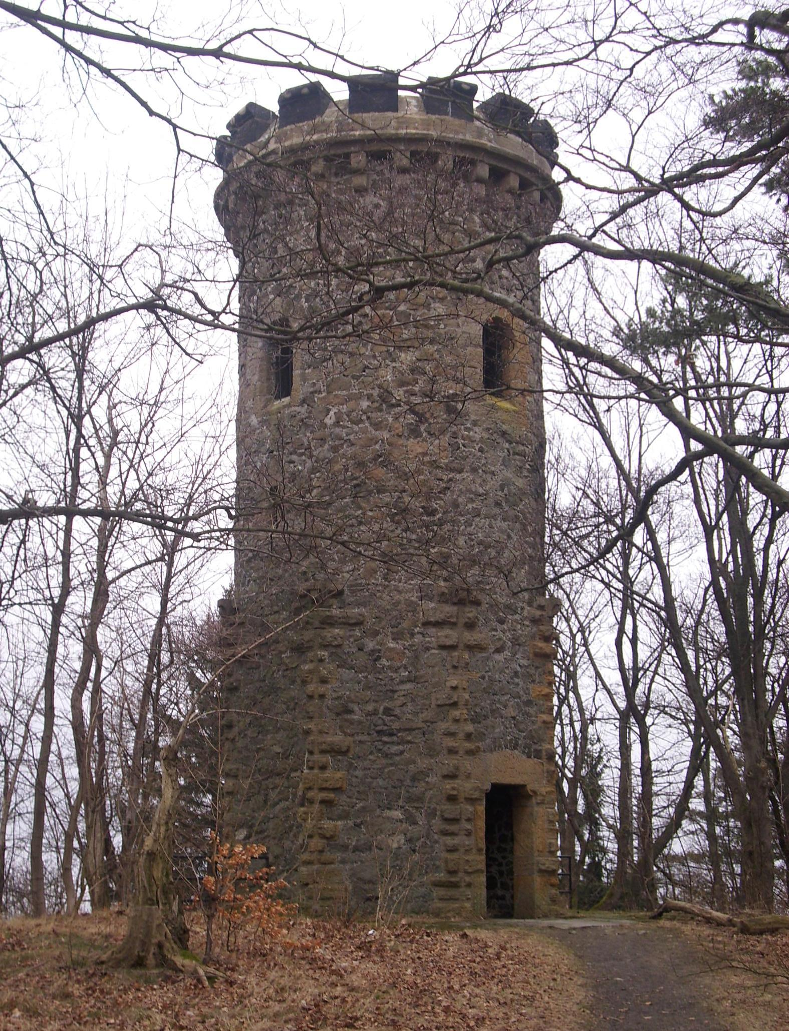 Steinbergturm (Steinberg tower) near Goslar